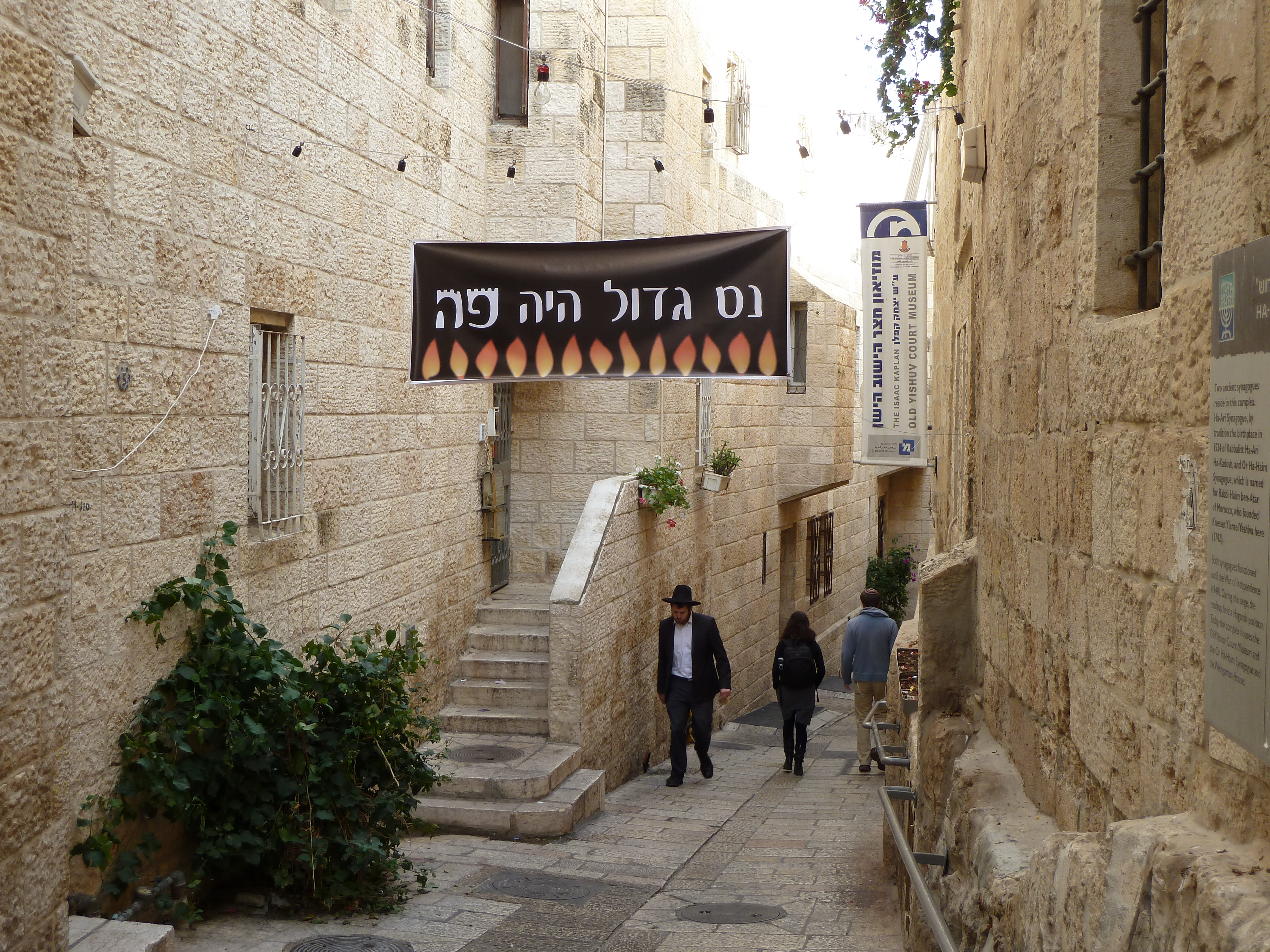 Old Jerusalem Or Ha'Chaim street Hanukkah decorations : "a great miracle happened here"